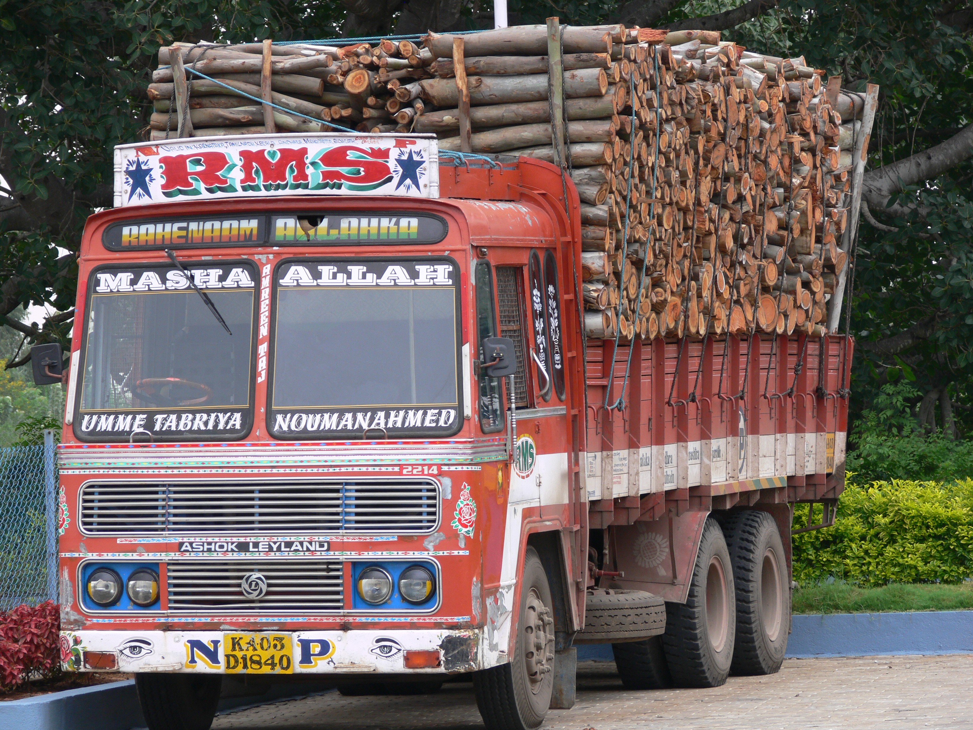 An Ashok Leyland 2214 Truck on road from Mysore to Bangalore.